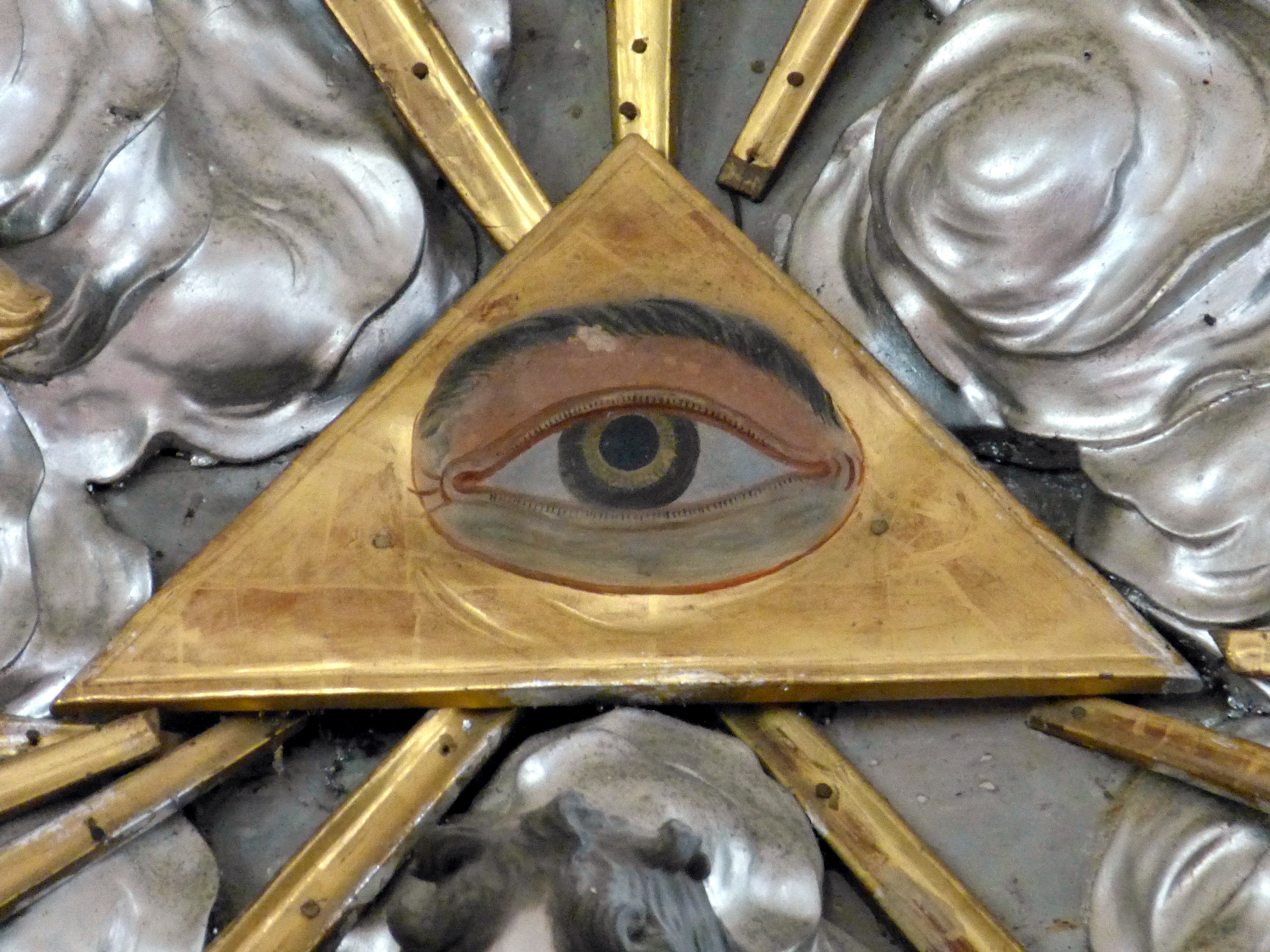 Schwarzenberg am Böhmerwald ( Upper Austria ). Saint John of Nepomuk parish church ( 1786 ): Altar of Mary ( 1748 ) - Eye of Providence.